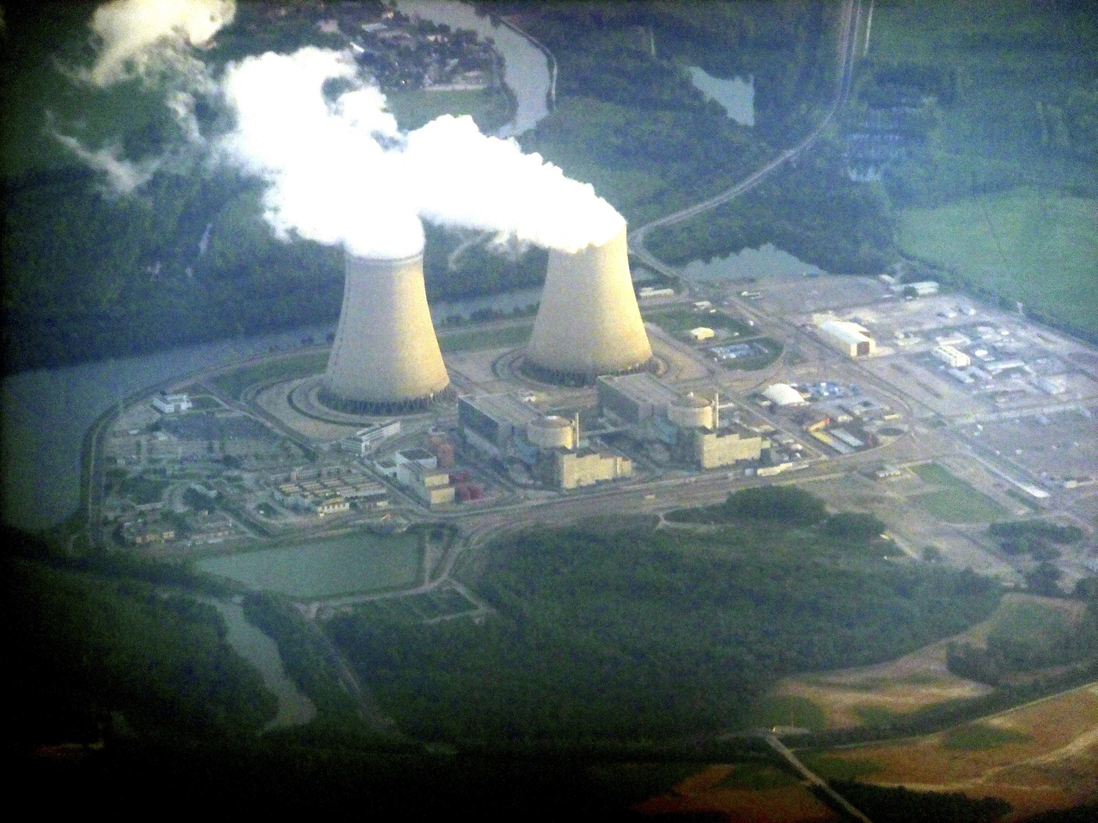 The Nogent-sur-Seine, France, nuclear power plant as seen from an airliner en route to Paris. Date of picture: 31 May 2012.